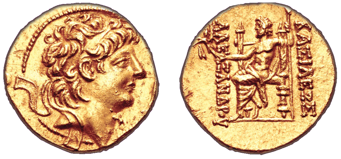 rare gold stater of Alexander II. SC II 2216. 125 BC